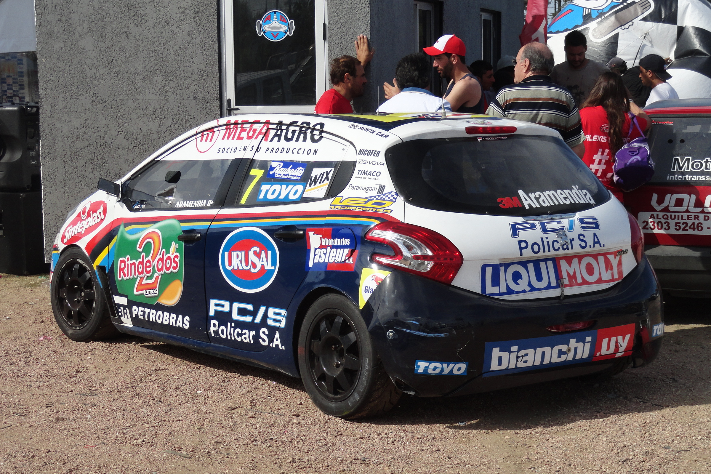 Peugeot 208 of Rodrigo Aramendía at the Superturismo paddock at the 2016 Gran Premio Coronación AUVO at the Autódromo Víctor Borrat Fabini de El Pinar.